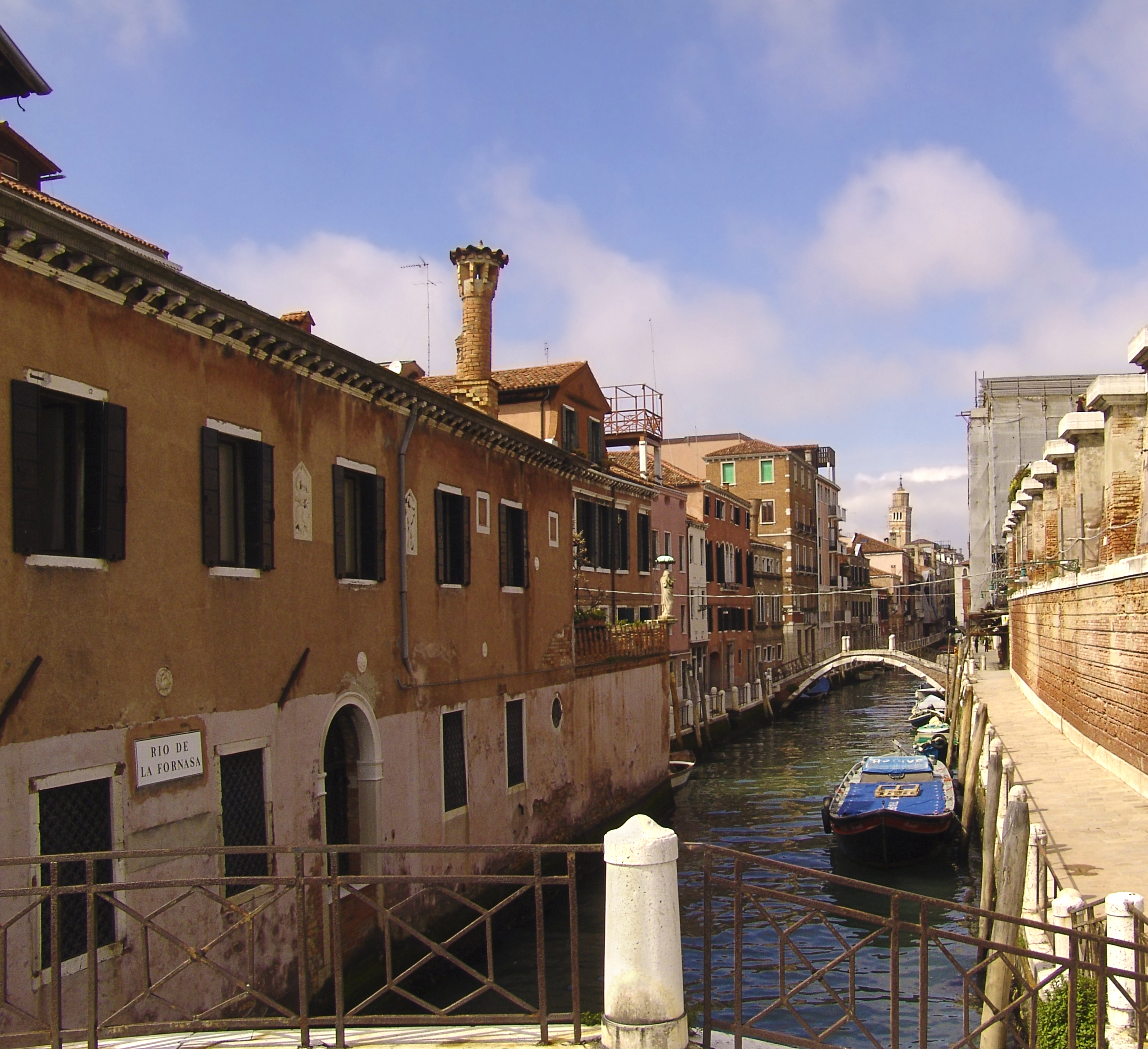 Rio de la Fornasa, seen from the bridge Ponte de Ca' Balà , Venice